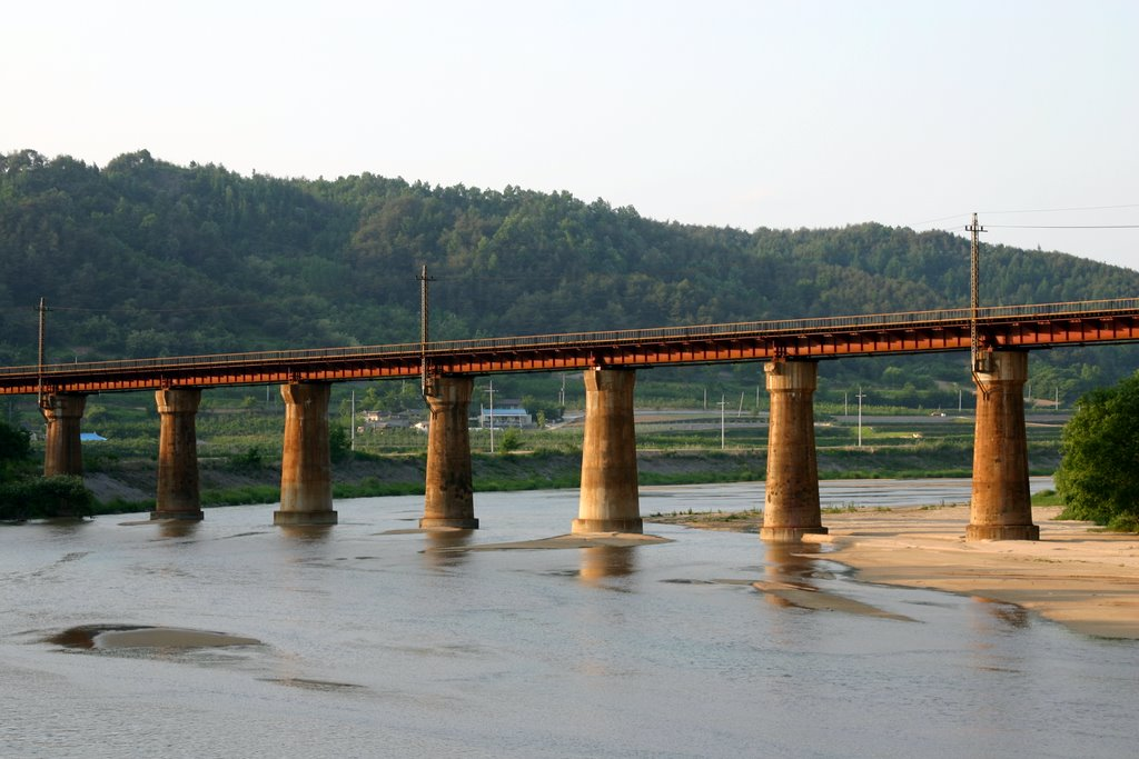 A rural scenery of Gyeongsangbuk-do, South Korea on May 26, 2007.